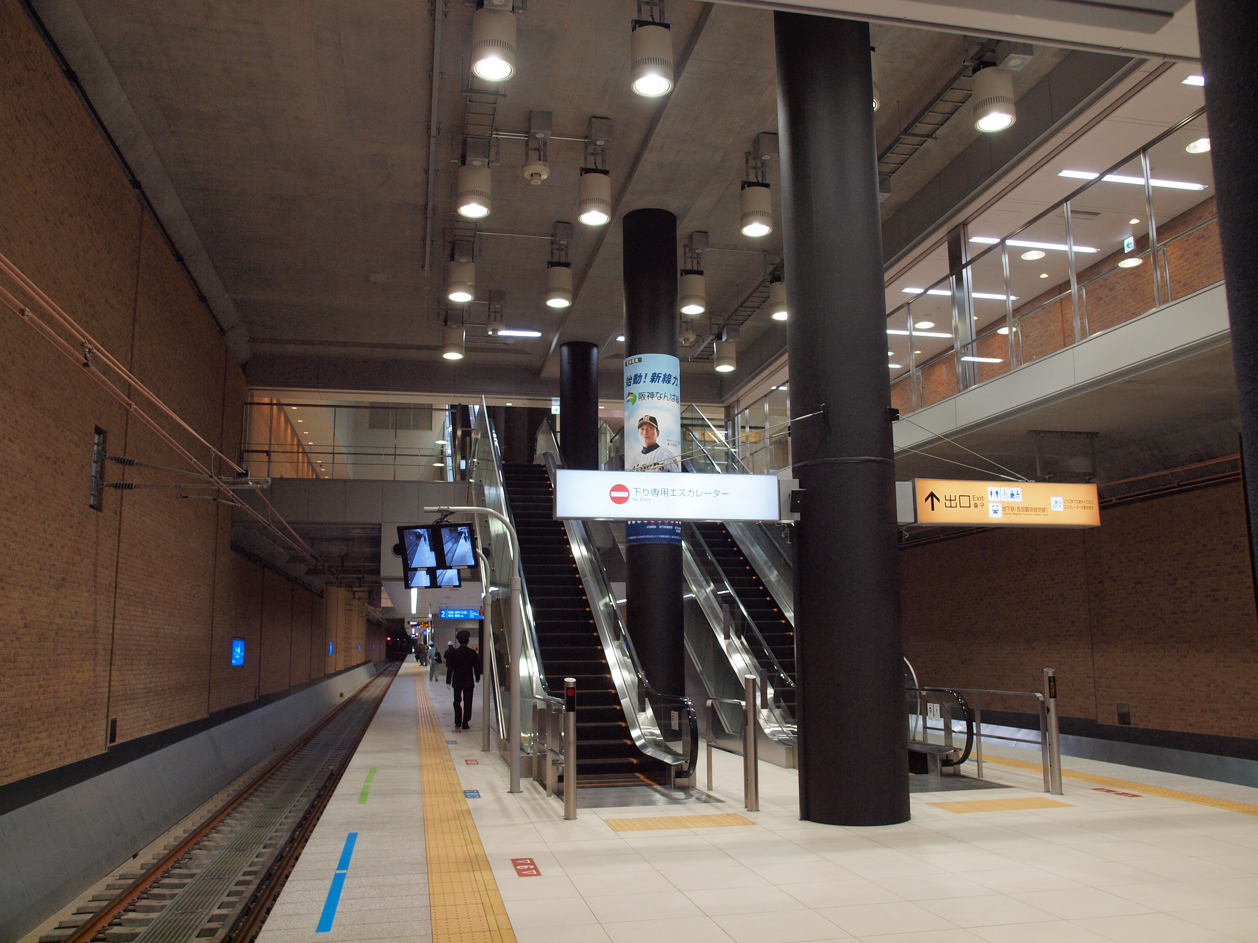 Dome-mae station, Hansin Railway